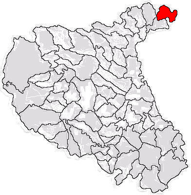 Limits of the Commune of Bogheşti